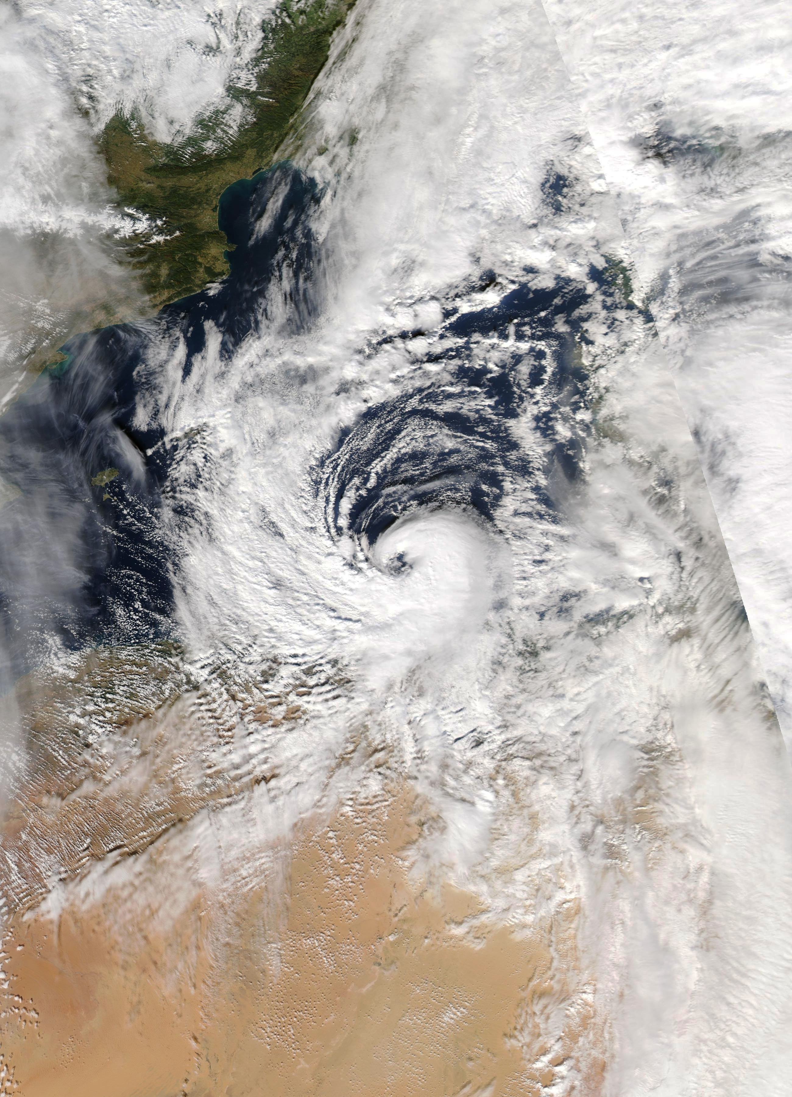 Storm Bernardo, of the 2019-2020 European windstorm season, above the Mediterranean Sea in front Algeria's coast.